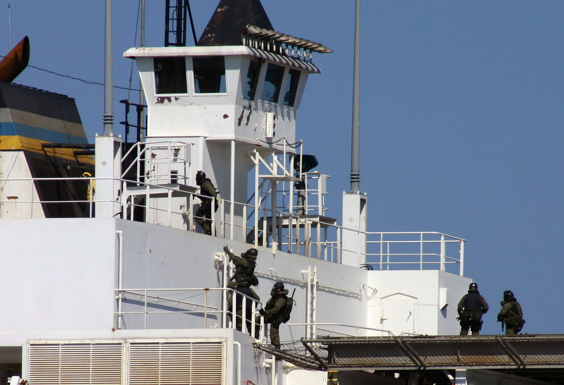 Mediterranean Sea (Apr. 22, 2004) - Italian Special Forces personnel make their way to the bridge of the Military Sealift Command (MSC) maritime prepositioning ship MV PFC Eugene A. Obregon (T-AK 3006) during exercise Clever Sentinel 2004. The exercise is a multilateral maritime interdiction training exercise led by Italy in the Mediterranean Sea. The exercise was part of the U.S. launched Proliferation Security Initiative (PSI), a collaborative effort to take active measures against trafficking in WMD, their delivery systems and related materials to and from states and non-state actors of proliferation concern around the world. Five nations, including the U.S., provided assets for the exercise and several nations sent observers to the exercise. U.S. Navy photo by Journalist 3rd Class Stephen P. Weaver. (RELEASED)